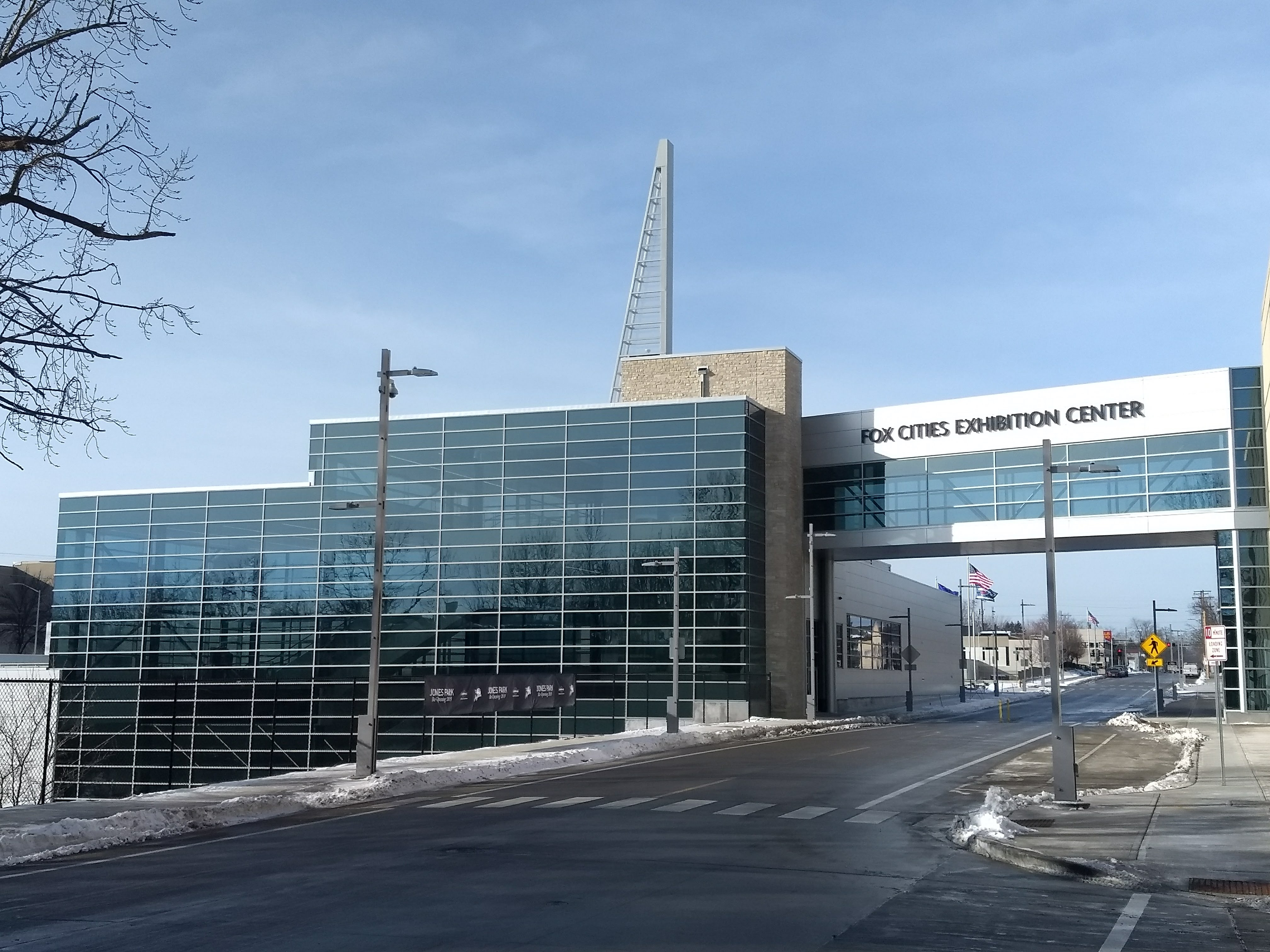 View of the newly built Fox Cities Exhibition Center